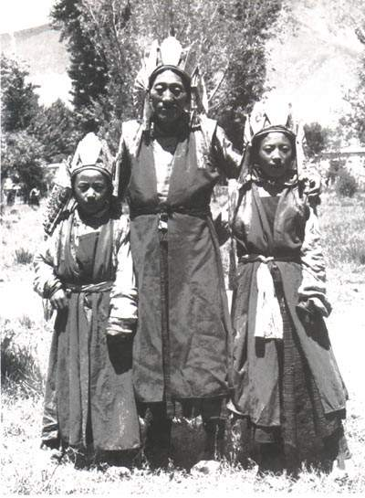 Ama Tsering, a Tibetan Opera actor